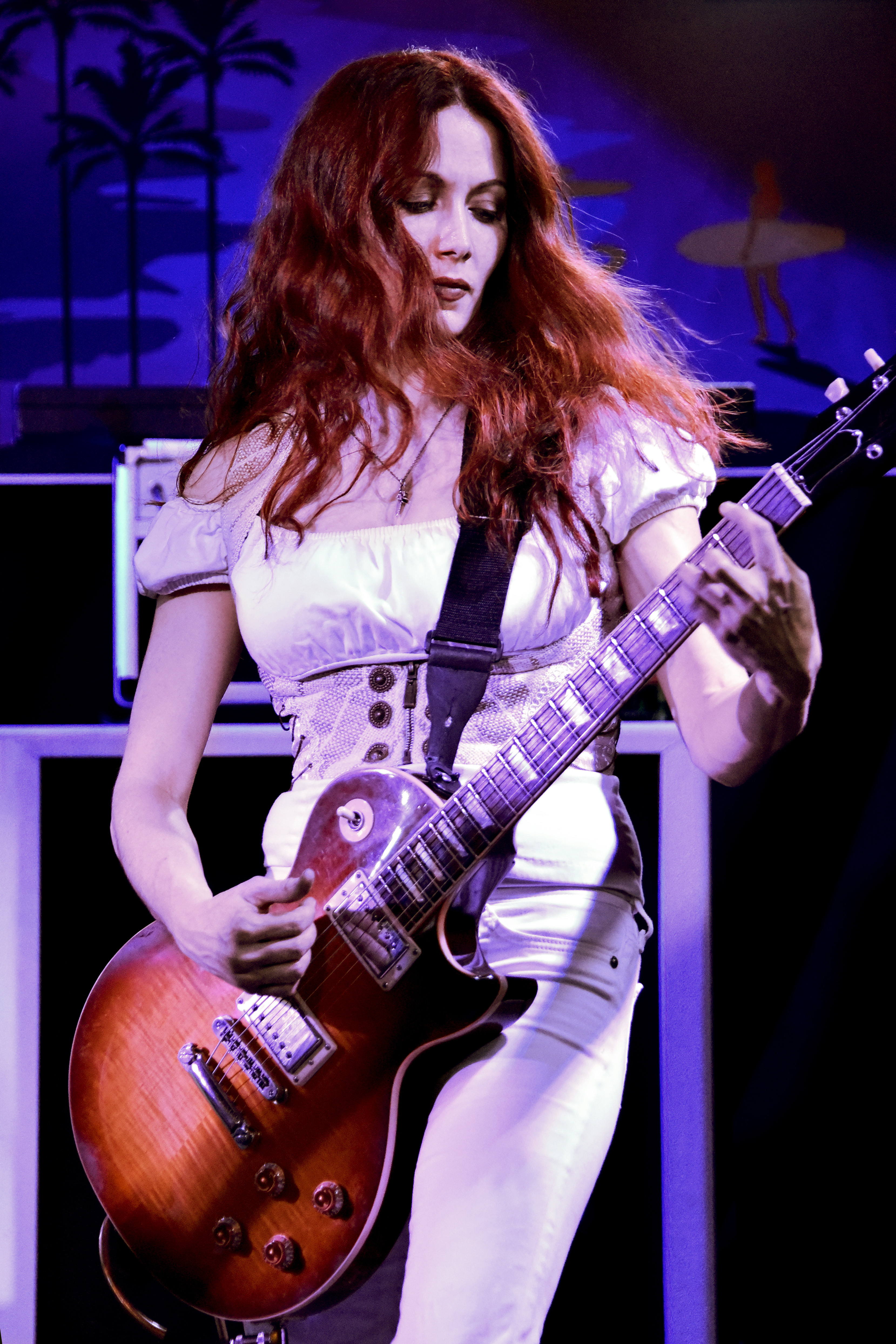 Guitarist Gretchen Menn performing at the Malibu Guitar Festival 2017 - Photo by Glenn Francis of